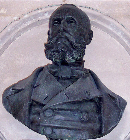 Closeup view of the funeral monument bust of the French architect Hector Lefuel (1810–1880)